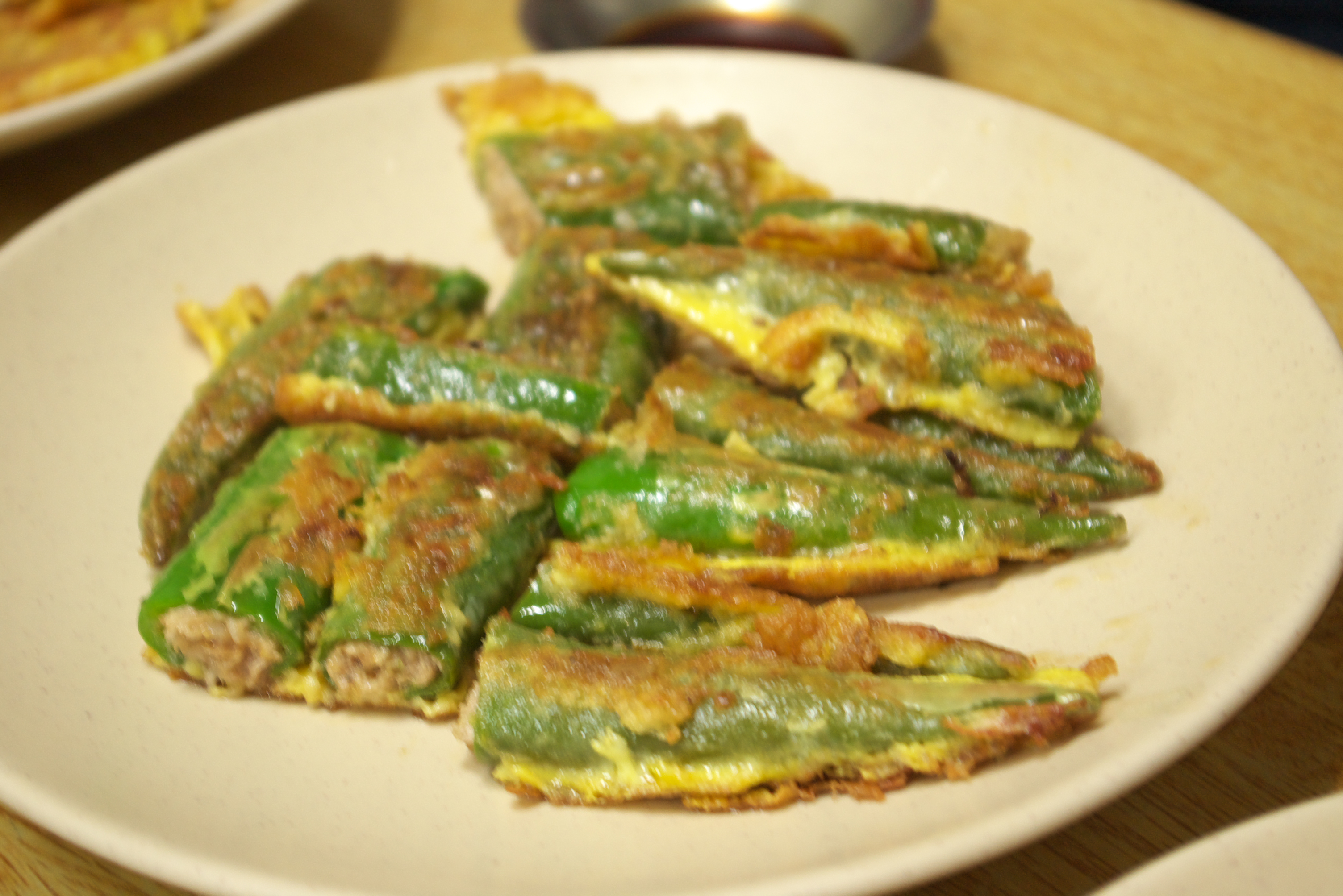 Gochujeon, a small pancake-like Korean dish made mostly of eggs and flour, with gochu (green pepper).